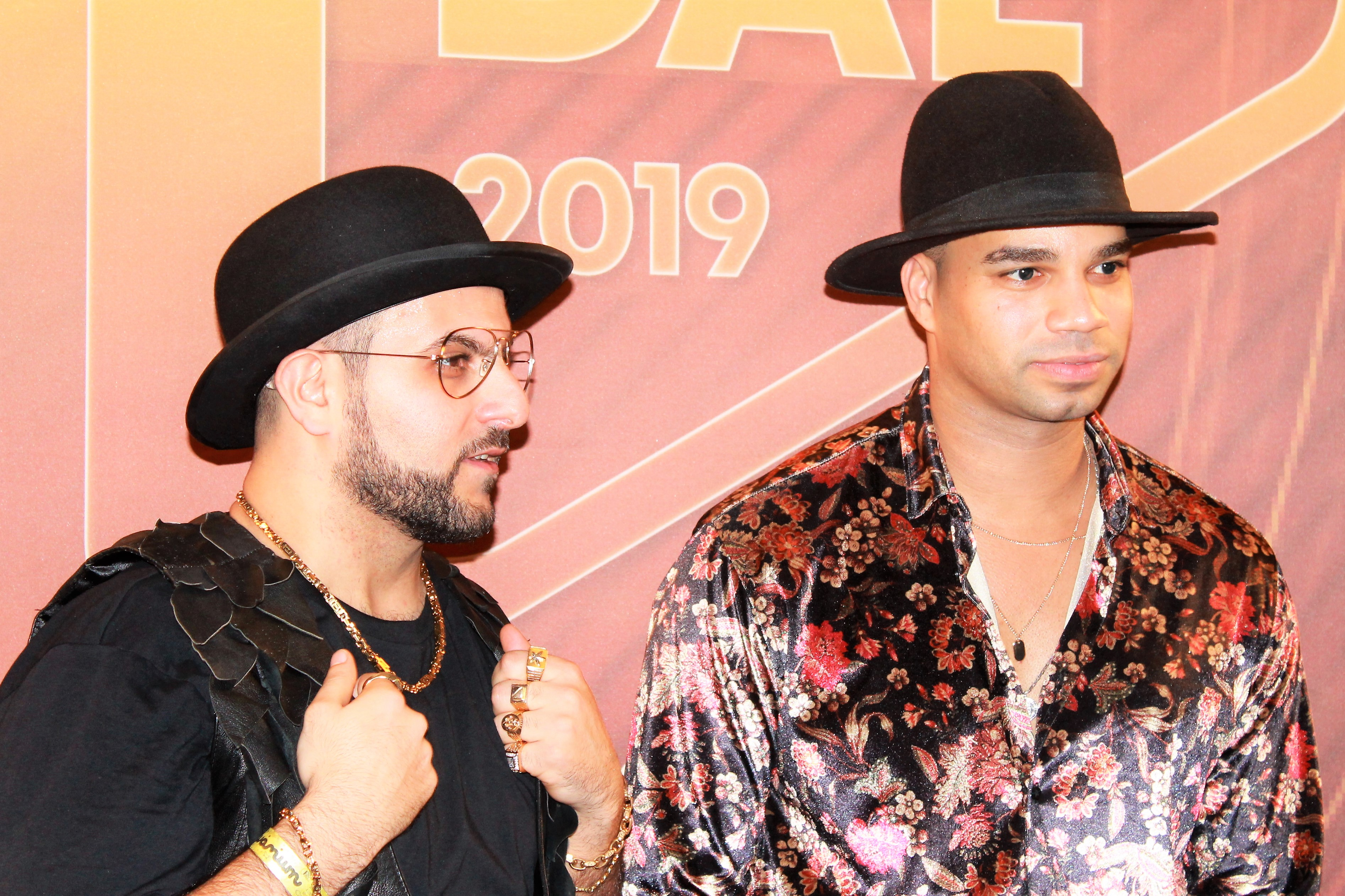 A Dal 2019 participant: The Middletonz